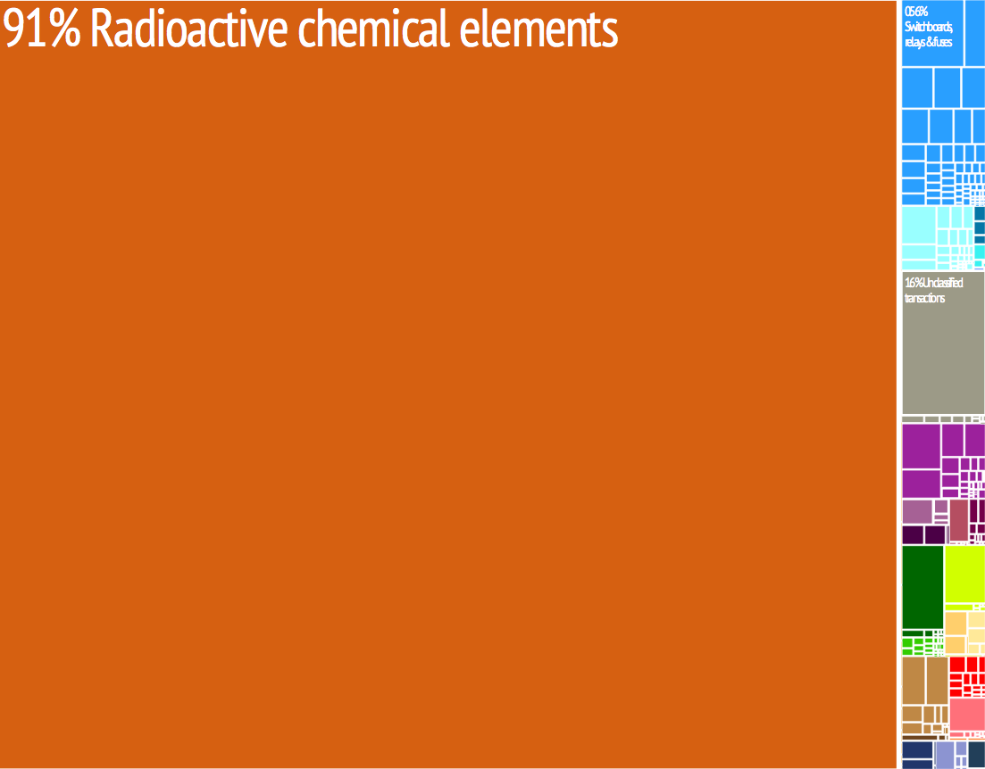 Export Trading Treemap. From MIT/Harvard Atlas of Economic Complexity